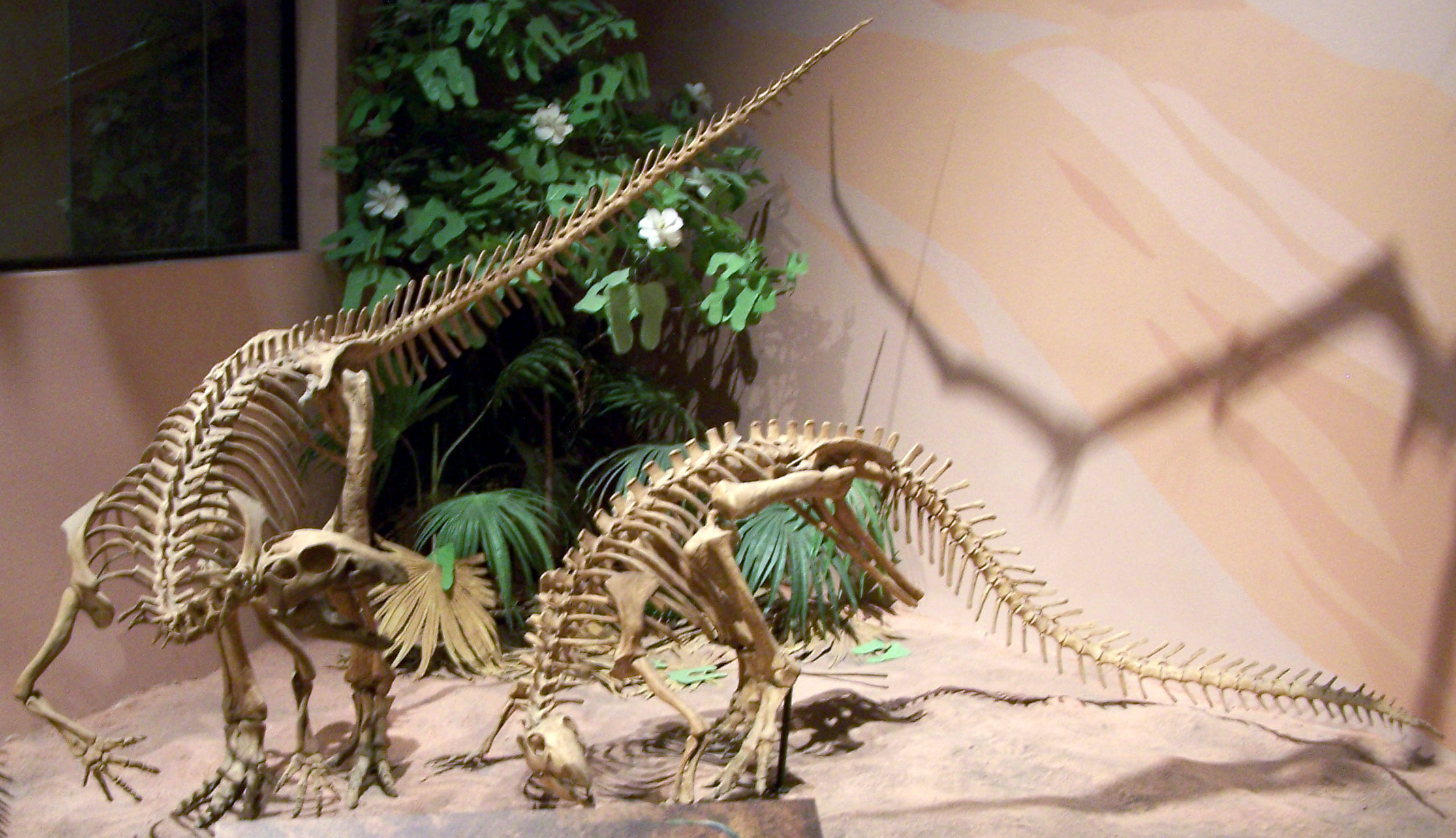 Two Thescelosaurus skeletons, North American Museum of Ancient Life.